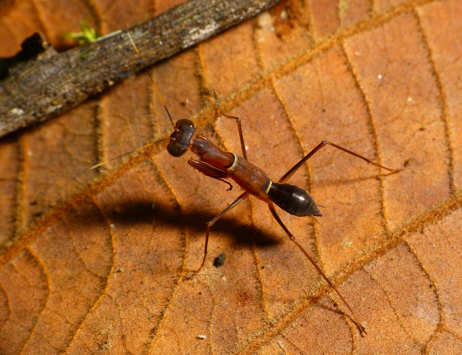 Ichneumon-like mantis from above. Wayanad, India